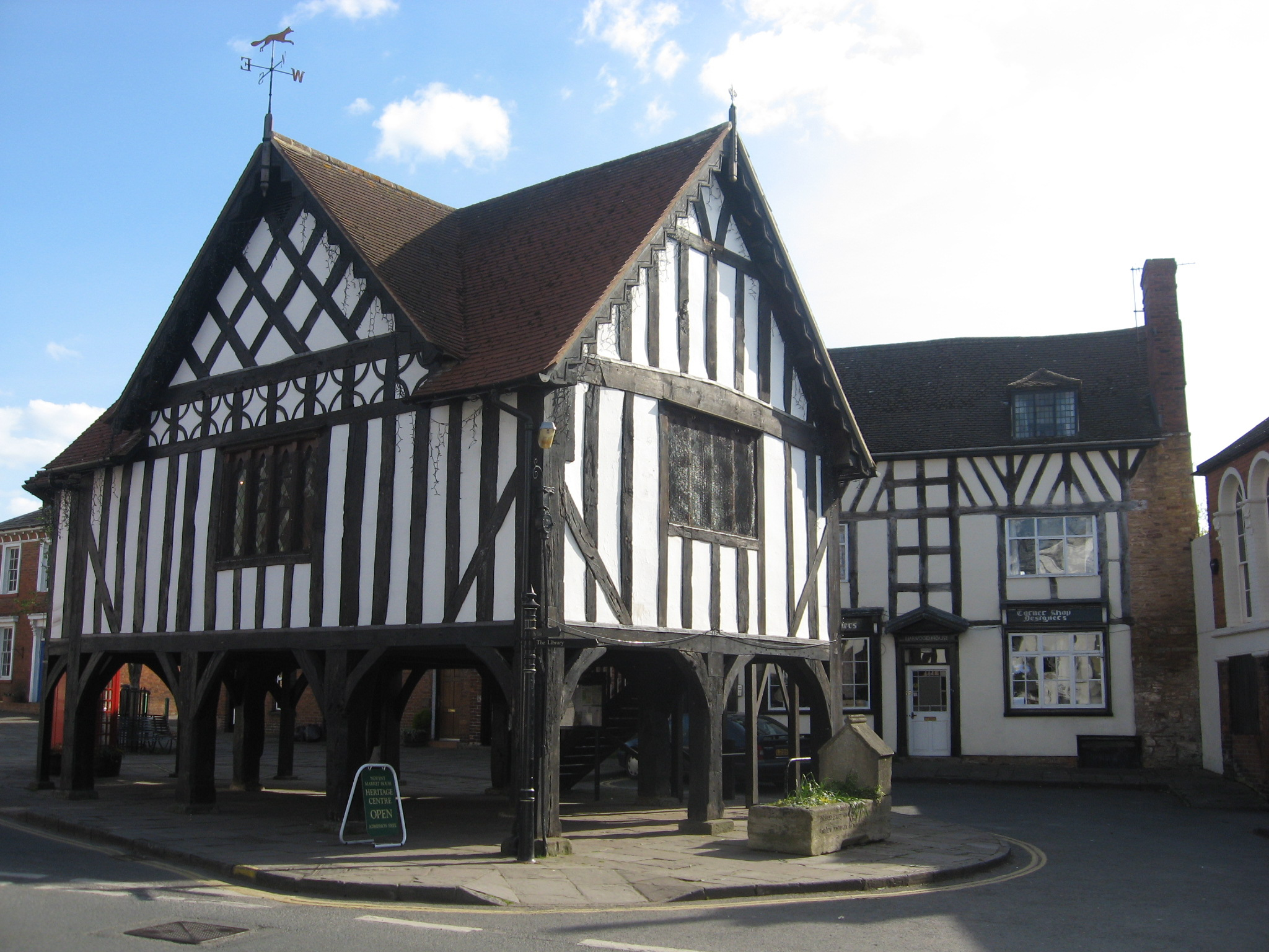 Old Market Hall, Newent, Gloucestershire